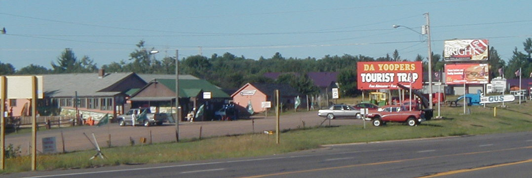 Picture Comments "Da Yoopers Tourist Trap" Notice the 4x4 1957 chevy sedan and HUGE chain saw "Gus", there is also what is probably the worlds largest working rifle (mounted on a truck), it is all about getting you to stop and look, then shop. I took this picture of "Da Yoopers Tourist Trap" on trip in the summer of 2005. It is in upper Michigan Tourist trap